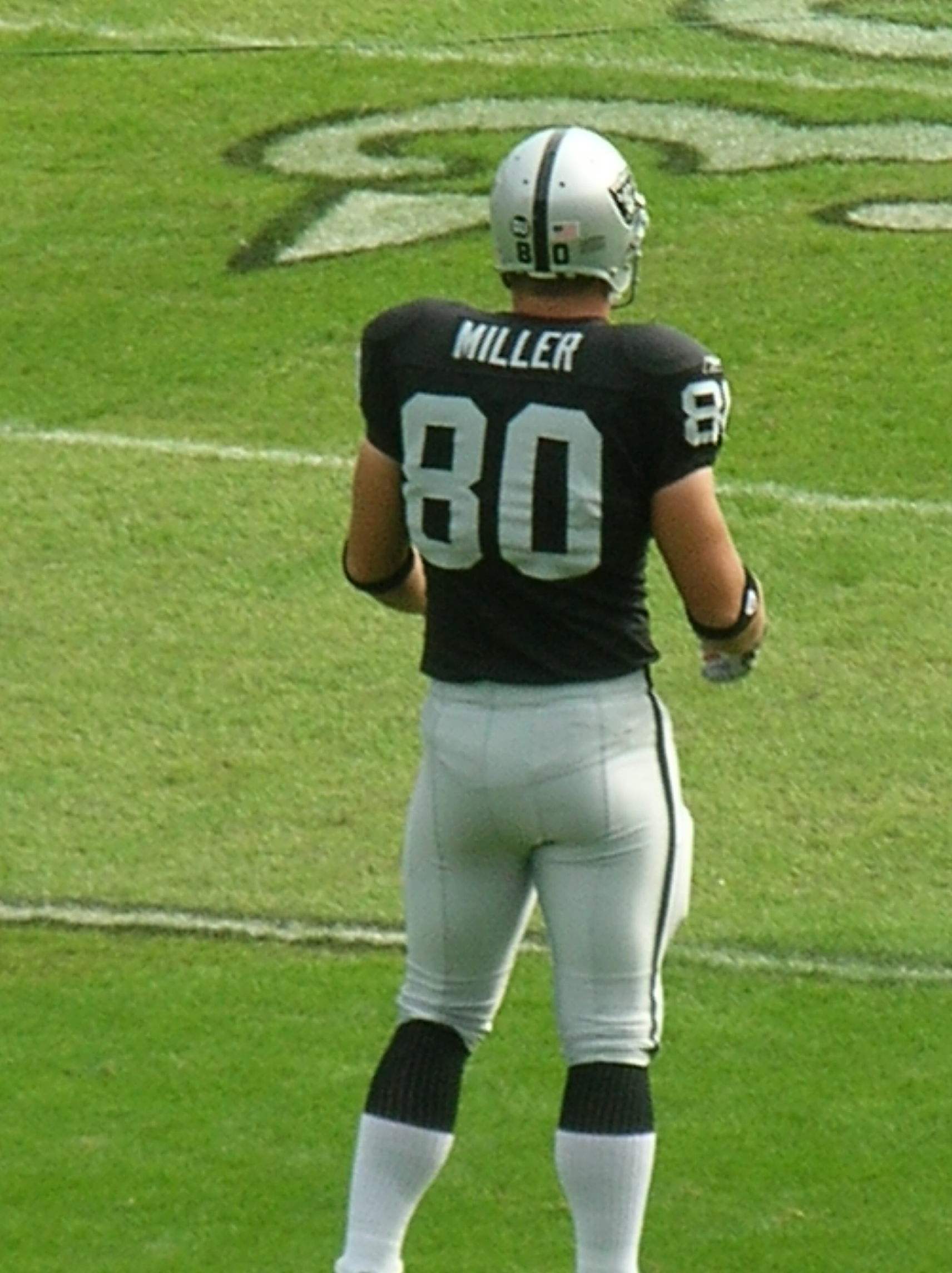 Oakland Raiders tight end Zach Miller prior to a home game against the Atlanta Falcons. The Falcons won 24-0.